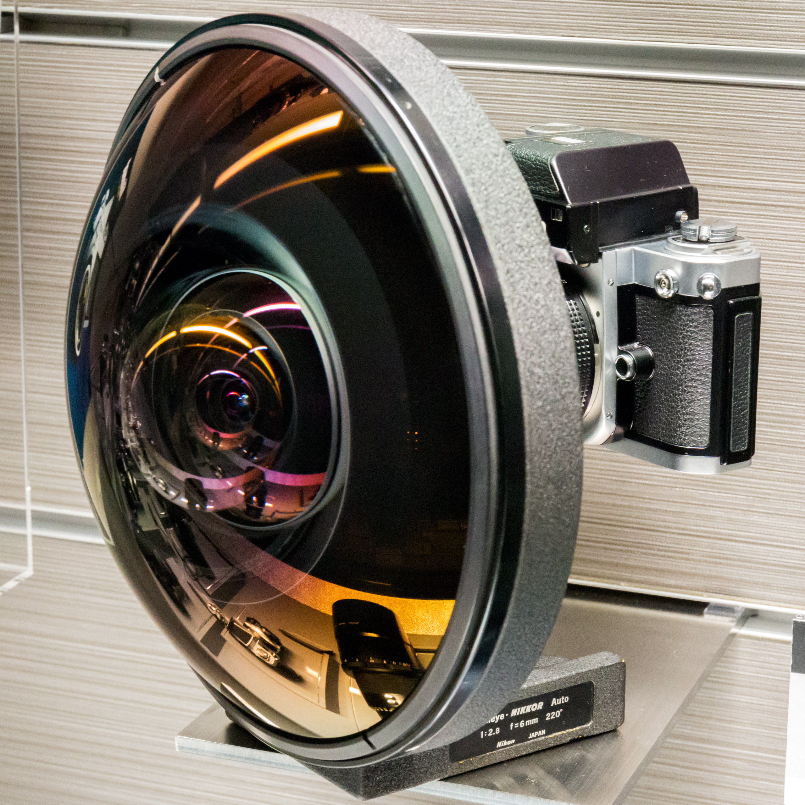 1972 Fisheye-Nikkor Auto 6mm f/2.8